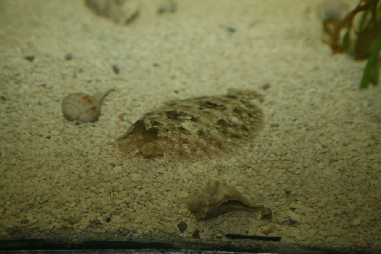 C-O sole, Pleuronichthys coenosus. Taken at the National Aquarium, Washington, DC.